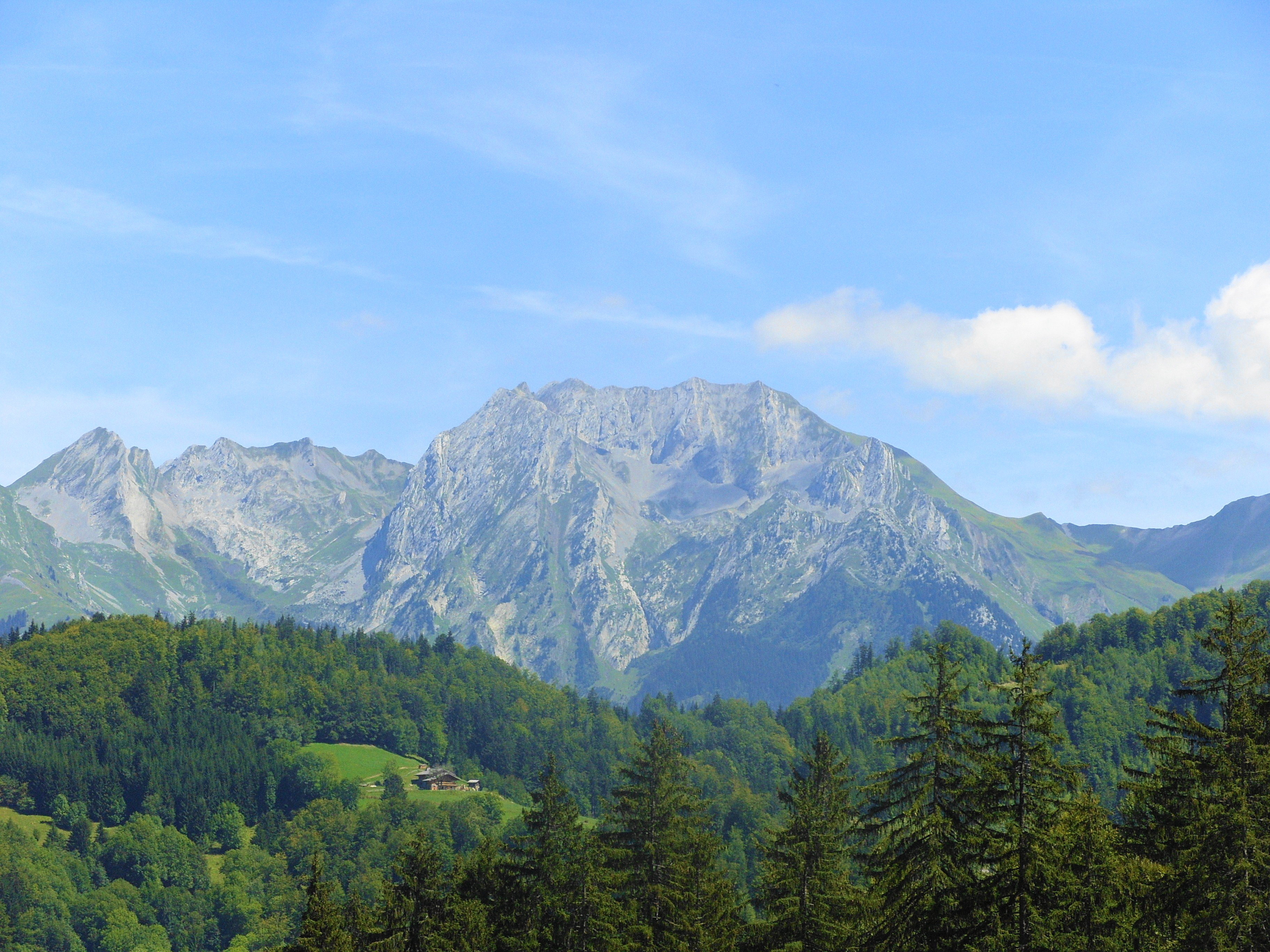 The Étale (2484m)